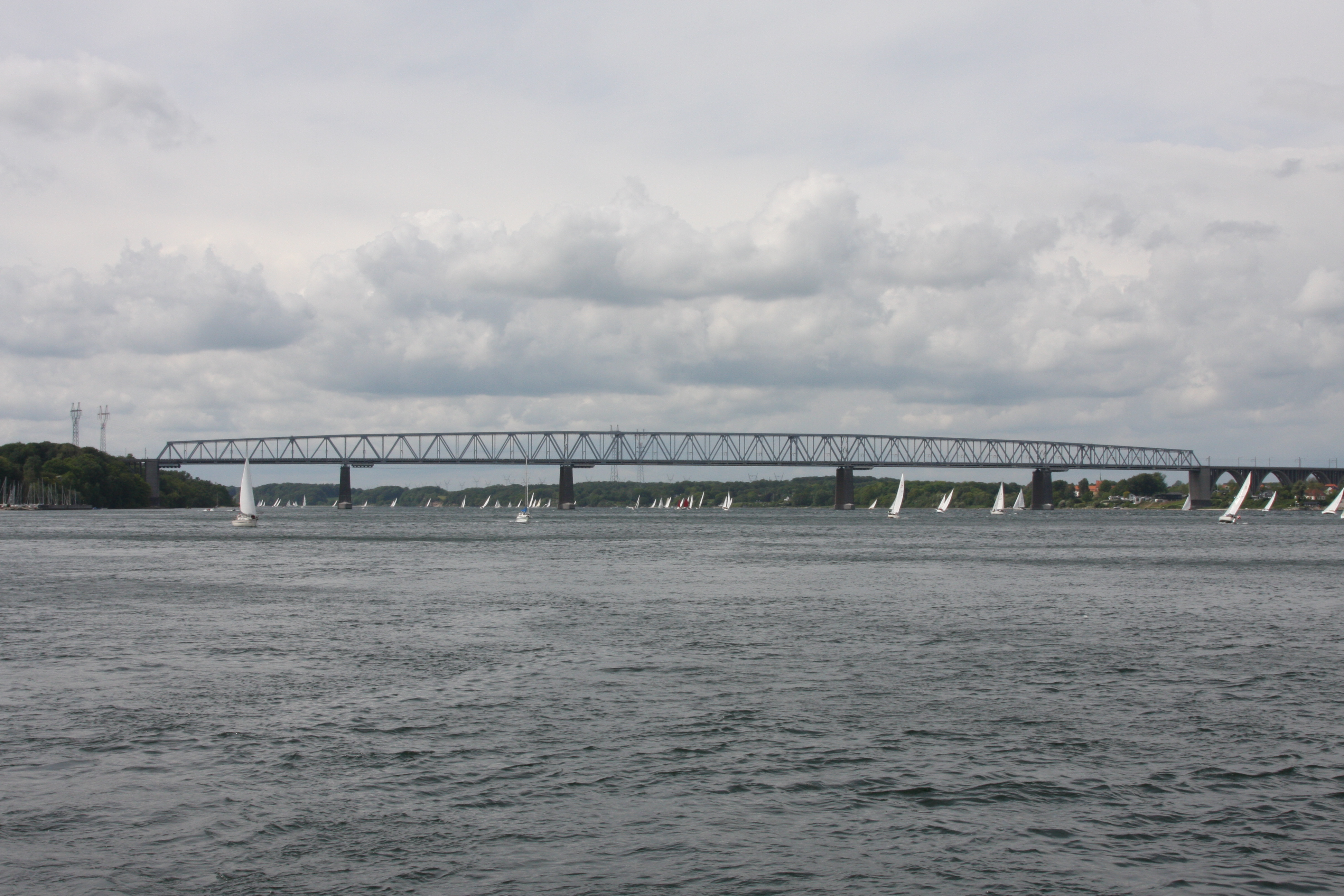 The Little Belt Bridge (1935) as seen from the harbour in Middelfart, Denmark.